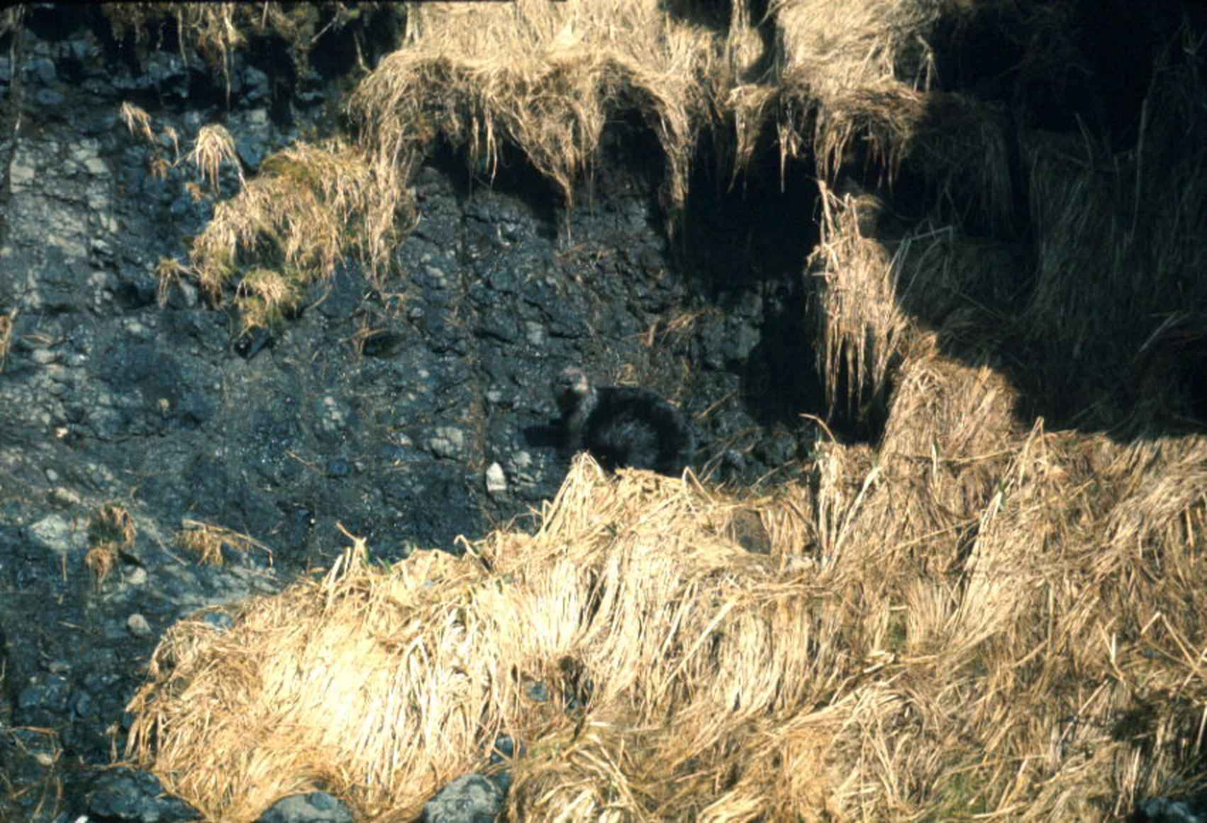 Image title: Enhydra lutris sea otter animal on coast Image from Public domain images website